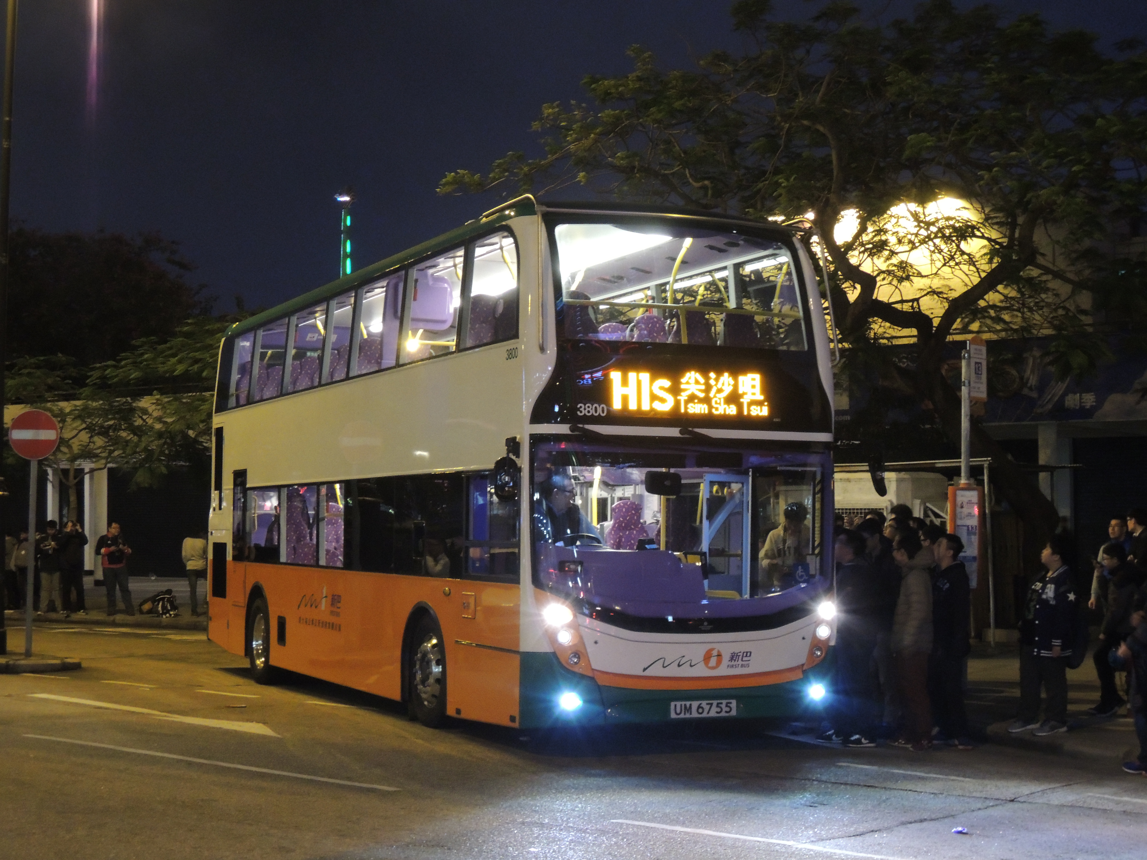 NWFB Route H1S (Edinburgh Place) 中文（香港）: 新巴H1S線 (愛丁堡廣場)